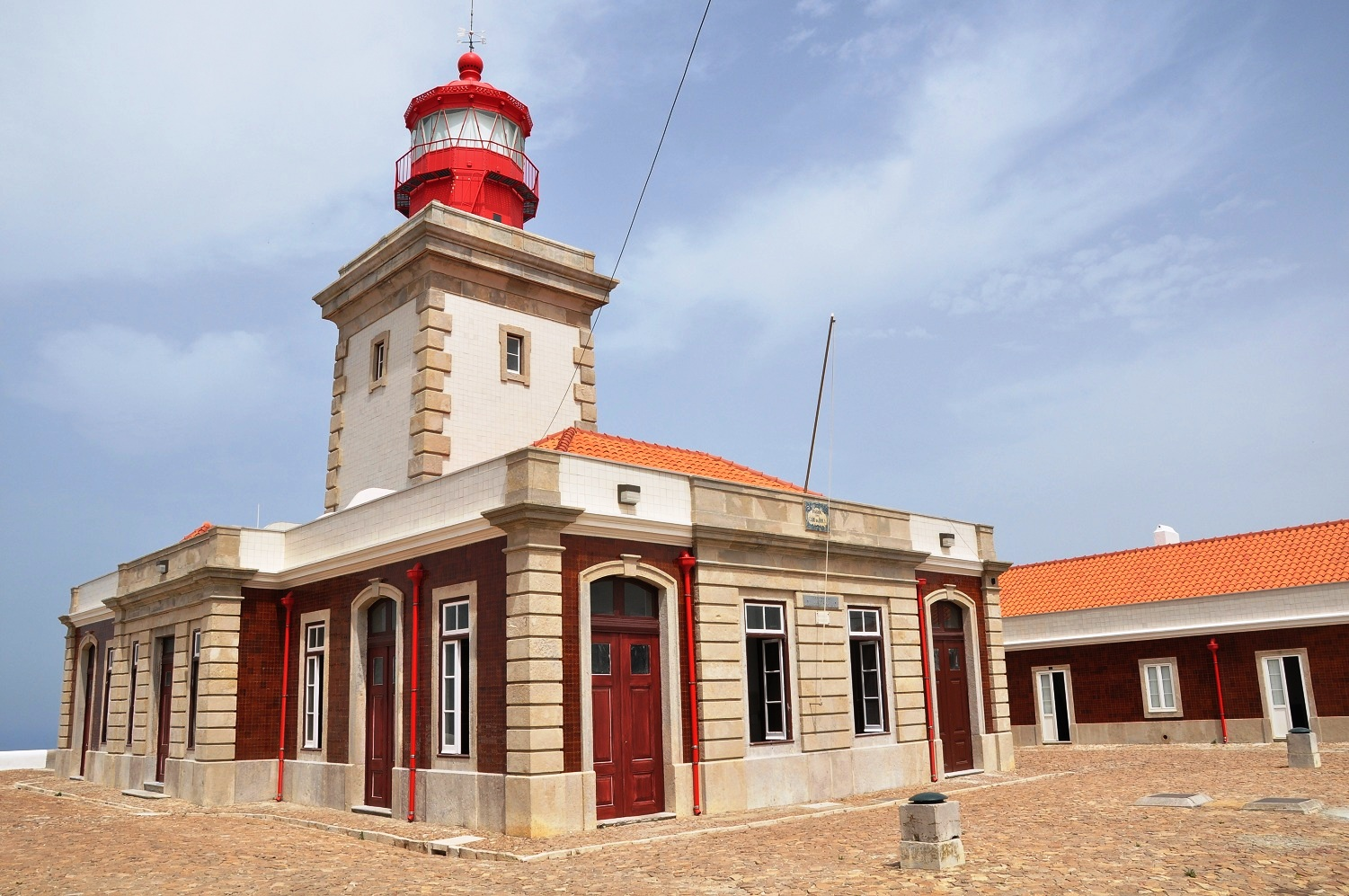 The Lighthouse of Cabo da Roca in Portugal is the westernmost building on the European continent. The nearest village is Azóia (1 km), Municipality of Sintra, freguesia Colares.